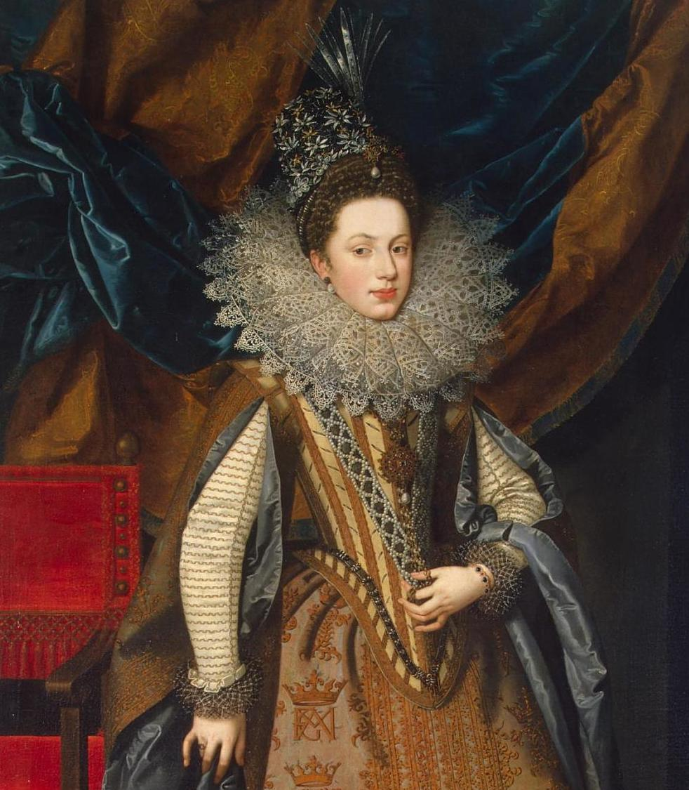 Marguerite of Savoy is depicted in her wedding dress with embroidery of the ducal crown and the monogram "FGMA" (Francesco Gonzaga, Margaret).